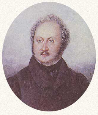 Karl Wilhelm Naundorff, a man, who claimed to be King Louis XVII. of France, 1845